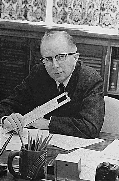 Paul McCracken, Chairman of the White House Council of Economic Advisers